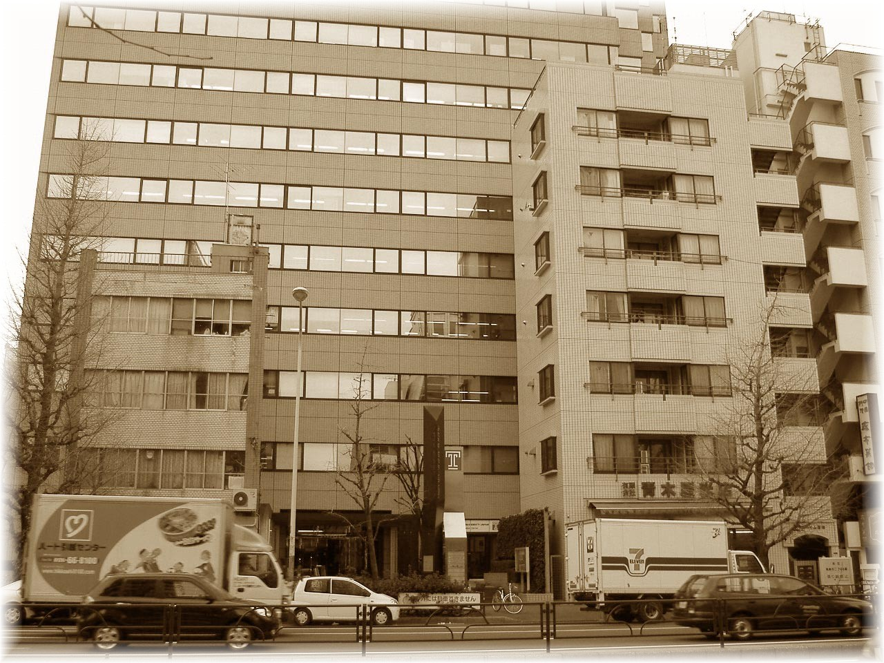 Temple University Japan in Minami-Azabu